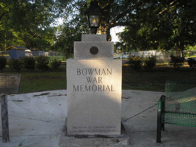 Bowman eternal flame war memorial, 1987. Taken by Justin Felder